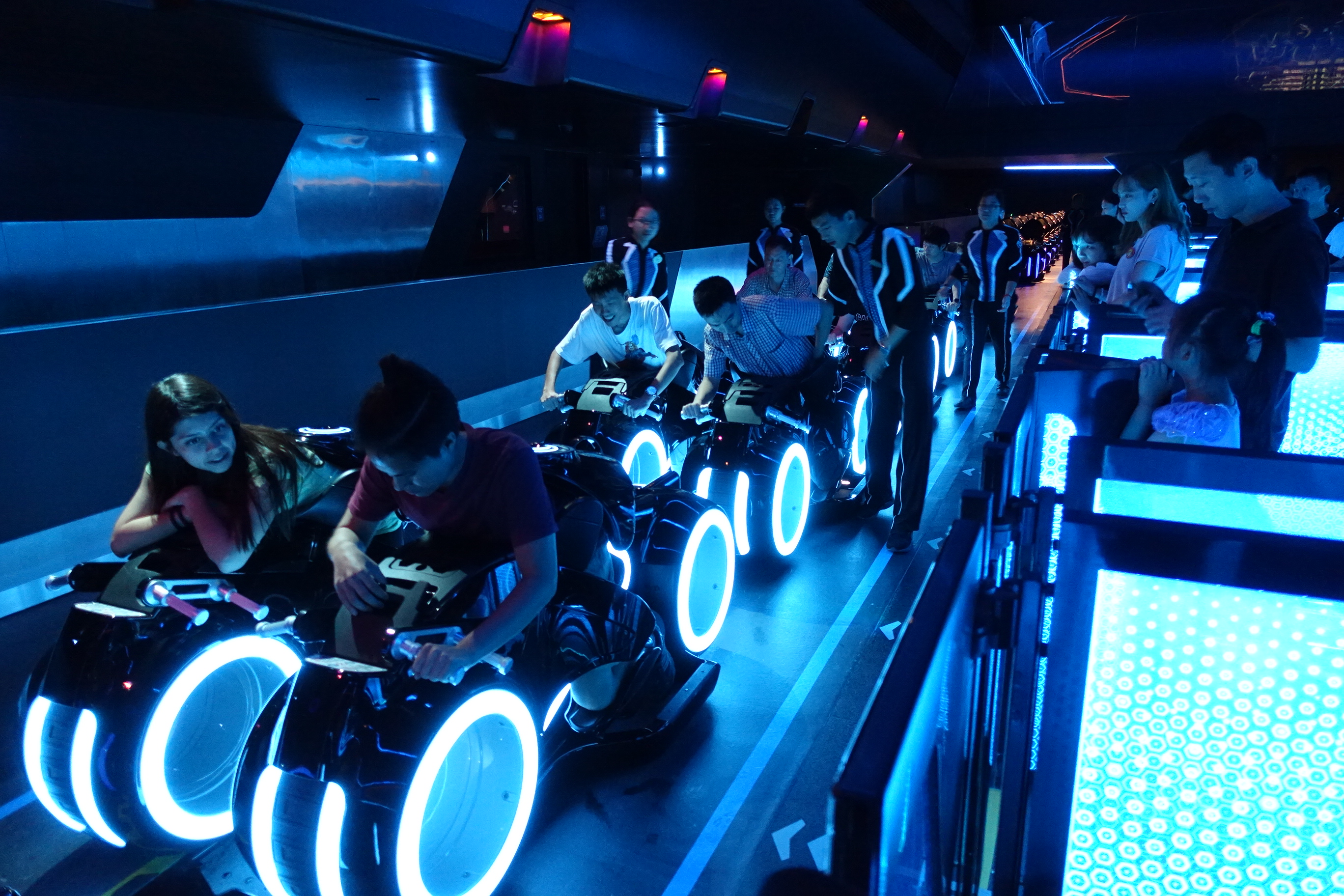 Tron Lightcycles Power Run